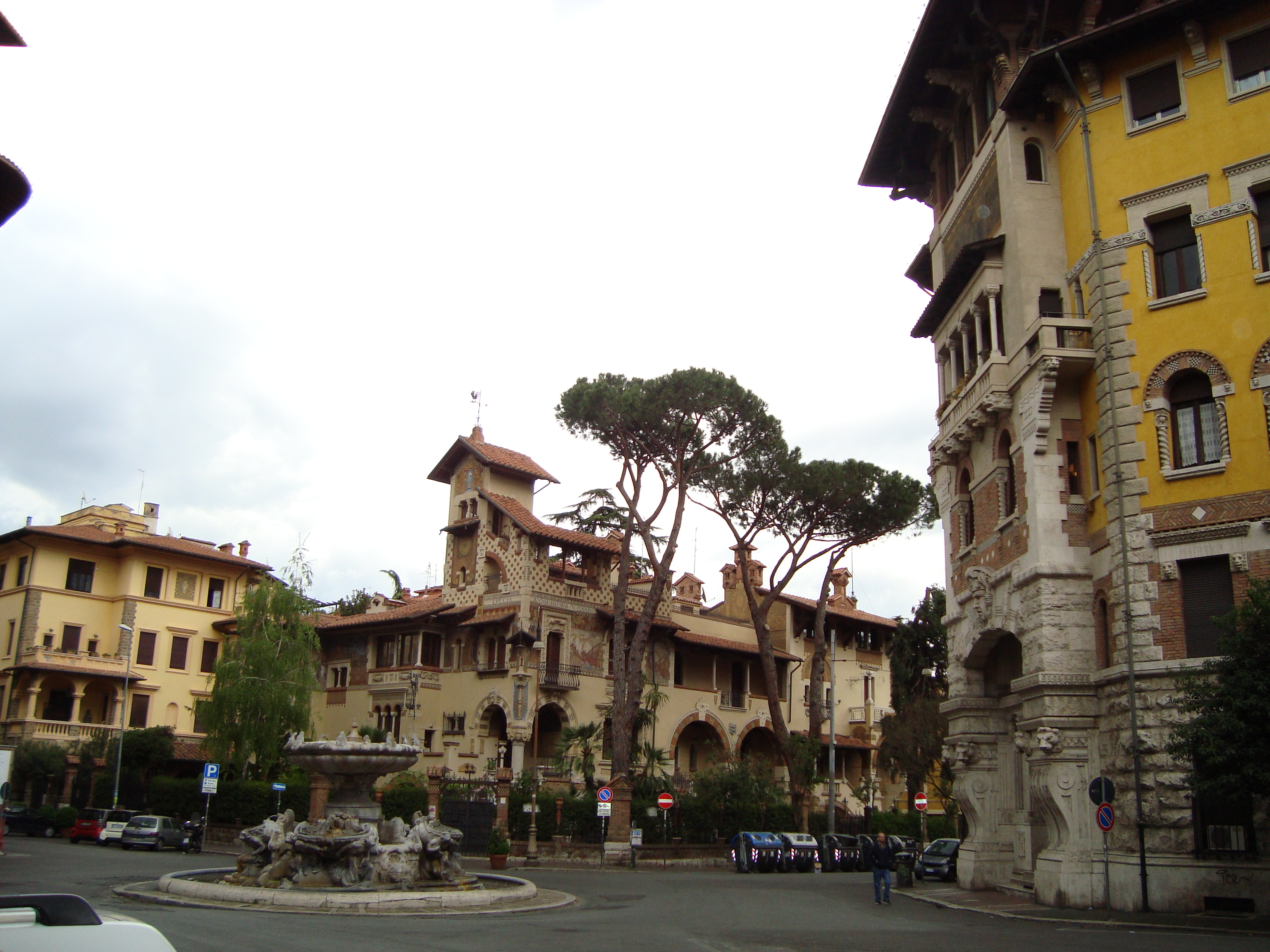 Piazza Mincio in Rome, in the Coppedè quartiere